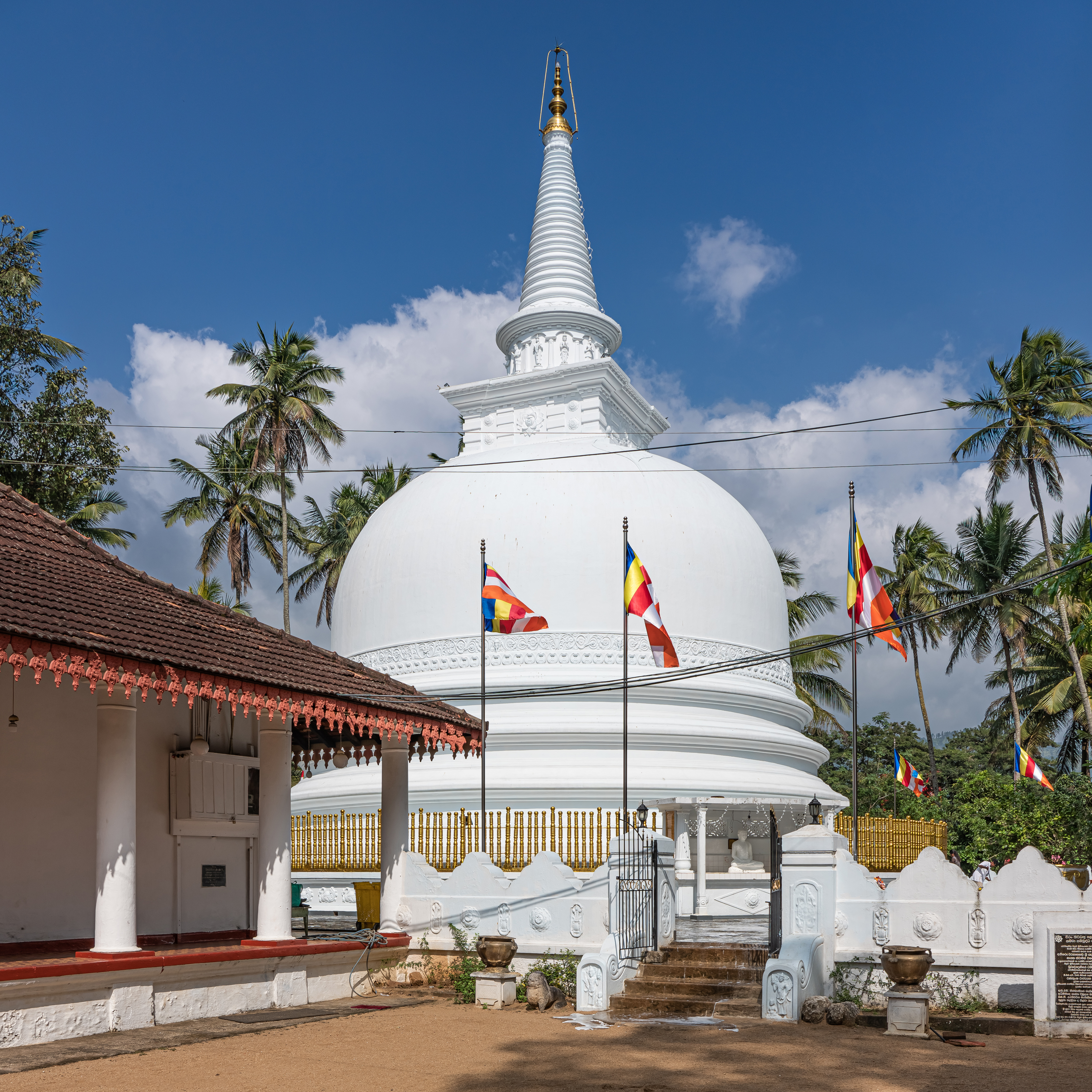 Muthiyangana Temple complex in Badulla, Sri Lanka: the stupa